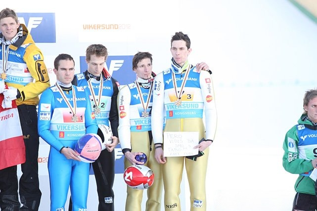 Team Slovenia during team competition of FIS Ski-Flying World Championships 2012